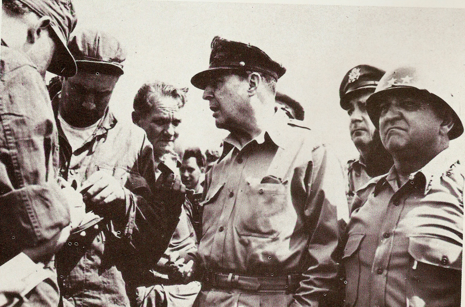 General Douglas MacArthur and lieutenant general Walton H.Walker